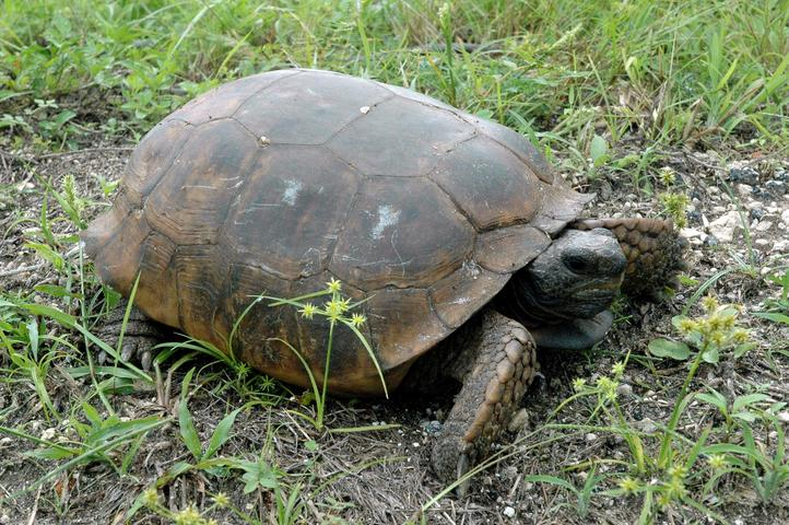 Gopherus polyphemus, Florida A gopher tortoise makes its way down the hill behind the NASA KSC News Center. The sandy soils of Florida are prime habitat for the species, the only one in Florida. Gopher tortoises thrive in many of our ecosystems, pine-oak sandhills, oak hammocks, prairies, flatwoods and coastal dunes. This and other wildlife abound throughout KSC as it shares a boundary with the Merritt Island National Wildlife Refuge, home to some of the nation’s rarest and most unusual species of wildlife. The wildlife refuge is a habitat for more than 310 species of birds, 25 mammals, 117 fishes and 65 amphibians and reptiles. In addition, the Refuge supports 19 endangered or threatened wildlife species on Federal or State lists, more than any other single refuge in the U.S. Gopher tortoises are protected by law in Florida and are listed as a Species of Special Concern.